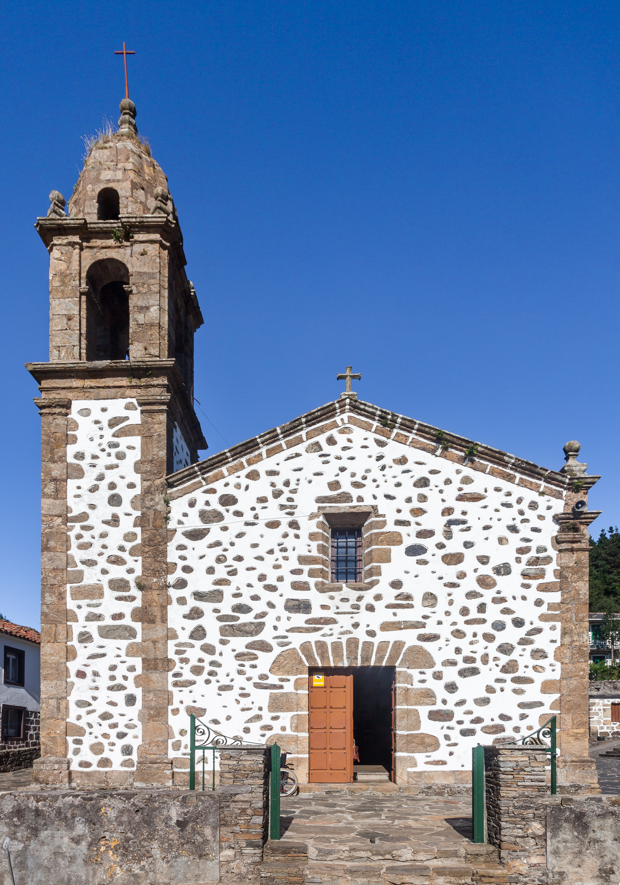 Santo André de Teixido, Cedeira, Galicia (Spain)